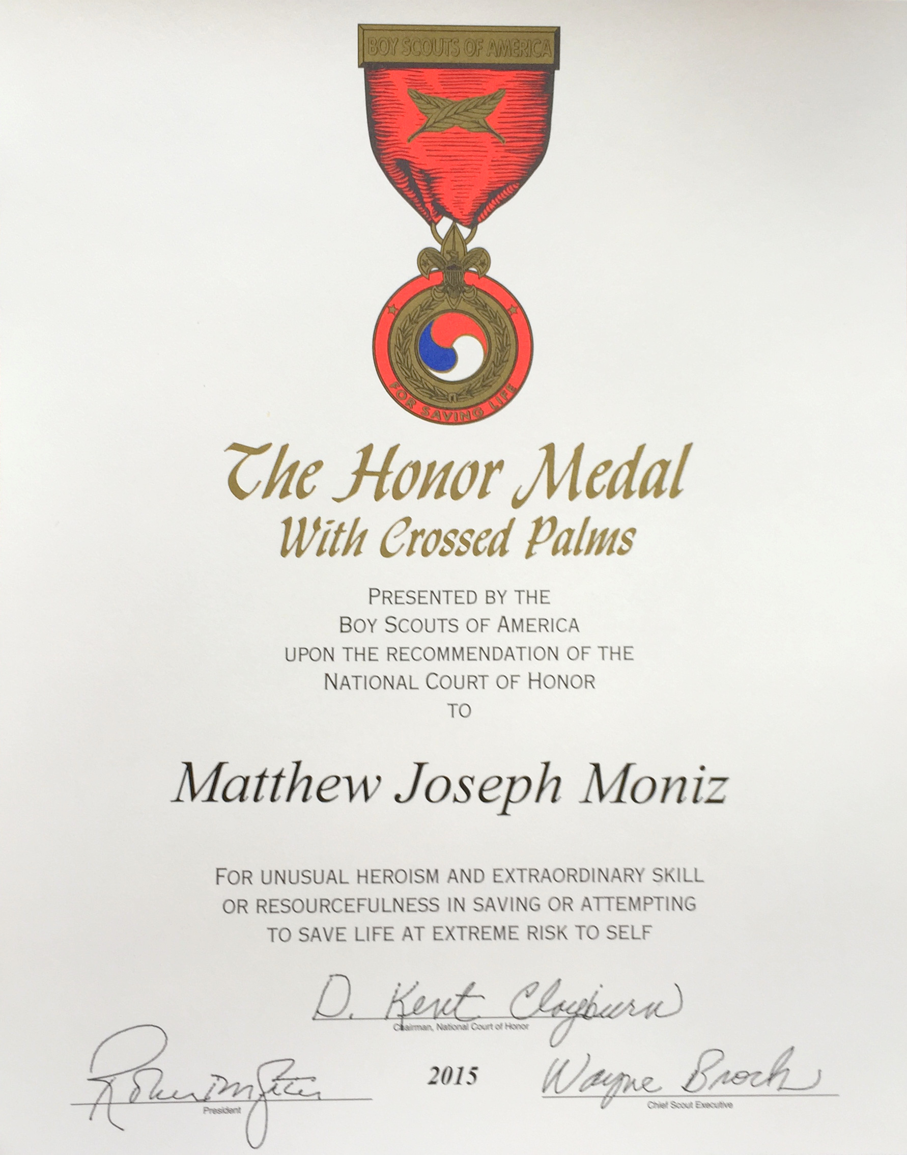 For his actions in